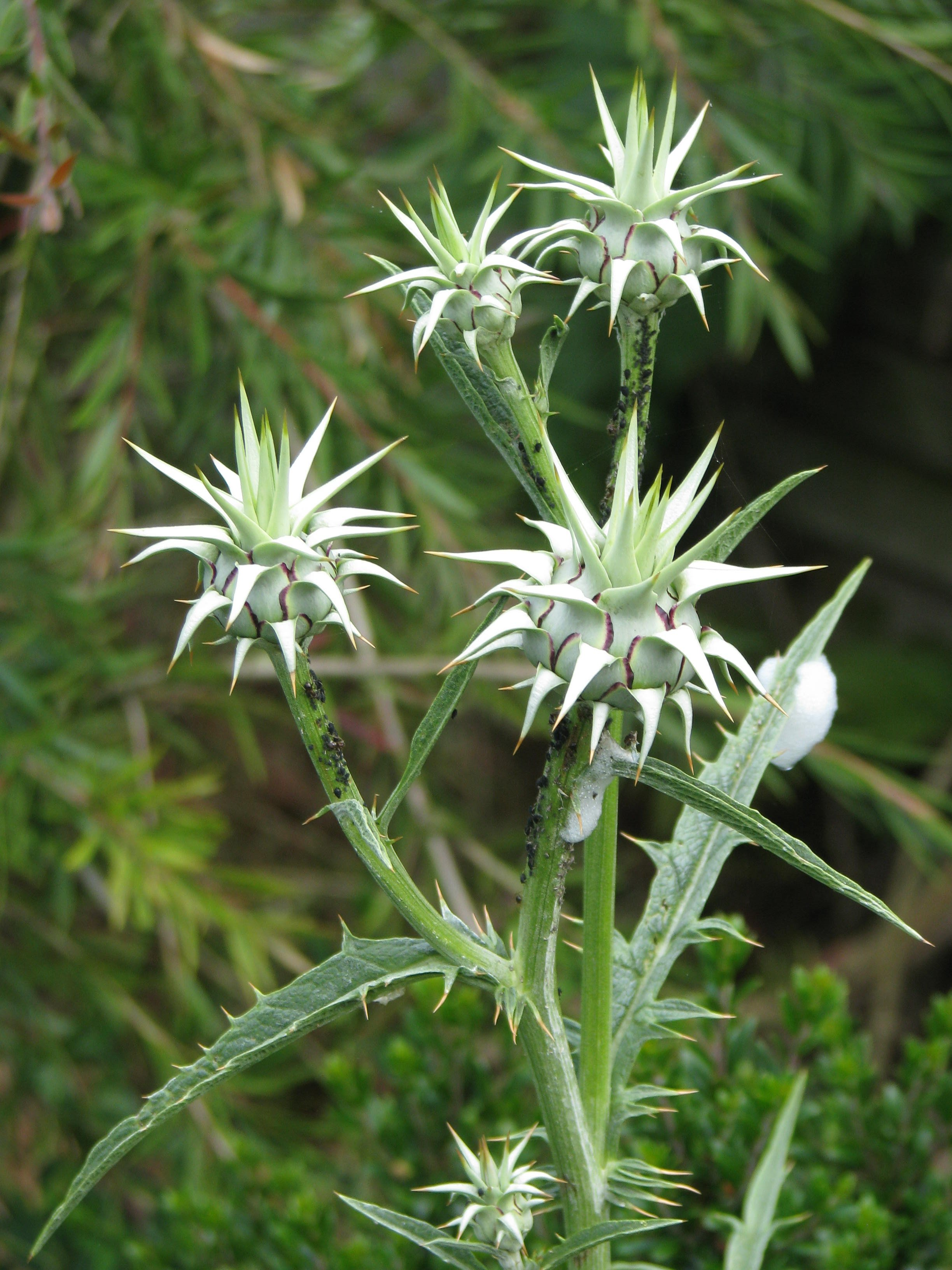 Cynara baetica maroccana